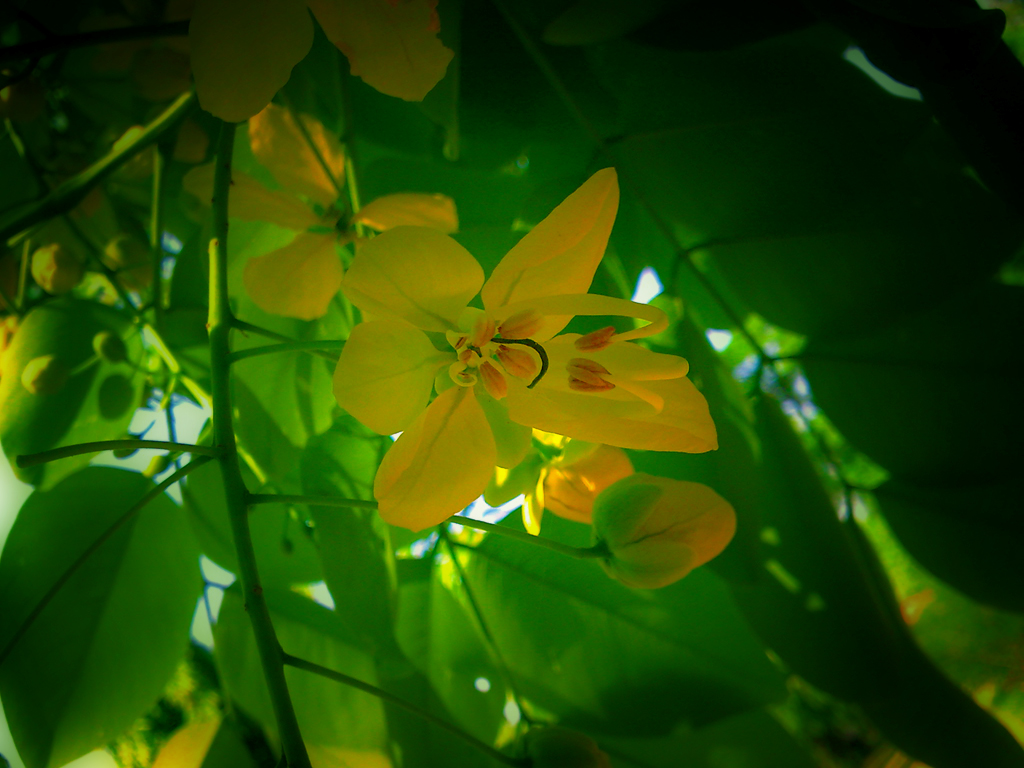 A close-up of the flower Cassia Fistula. It's called by several names in India, most commonly 'Amaltas'. From a garden in Chandigarh.